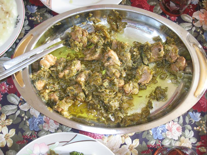 Pork fried with leeks (greek cuisine)